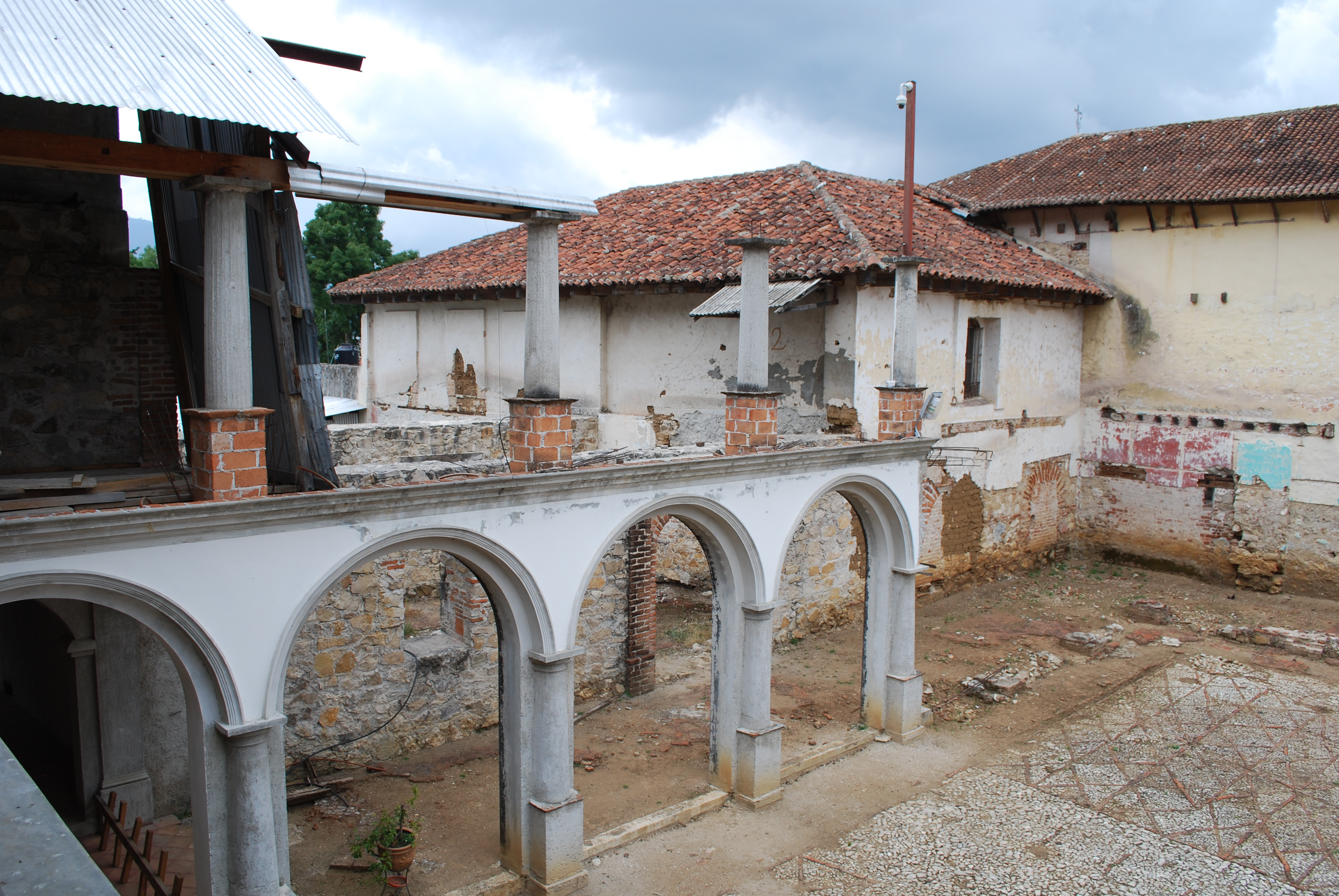 Area were reconstruction ends at the cloister of La Merced in San Cristobal de las Casas, Chiapas, Mexico